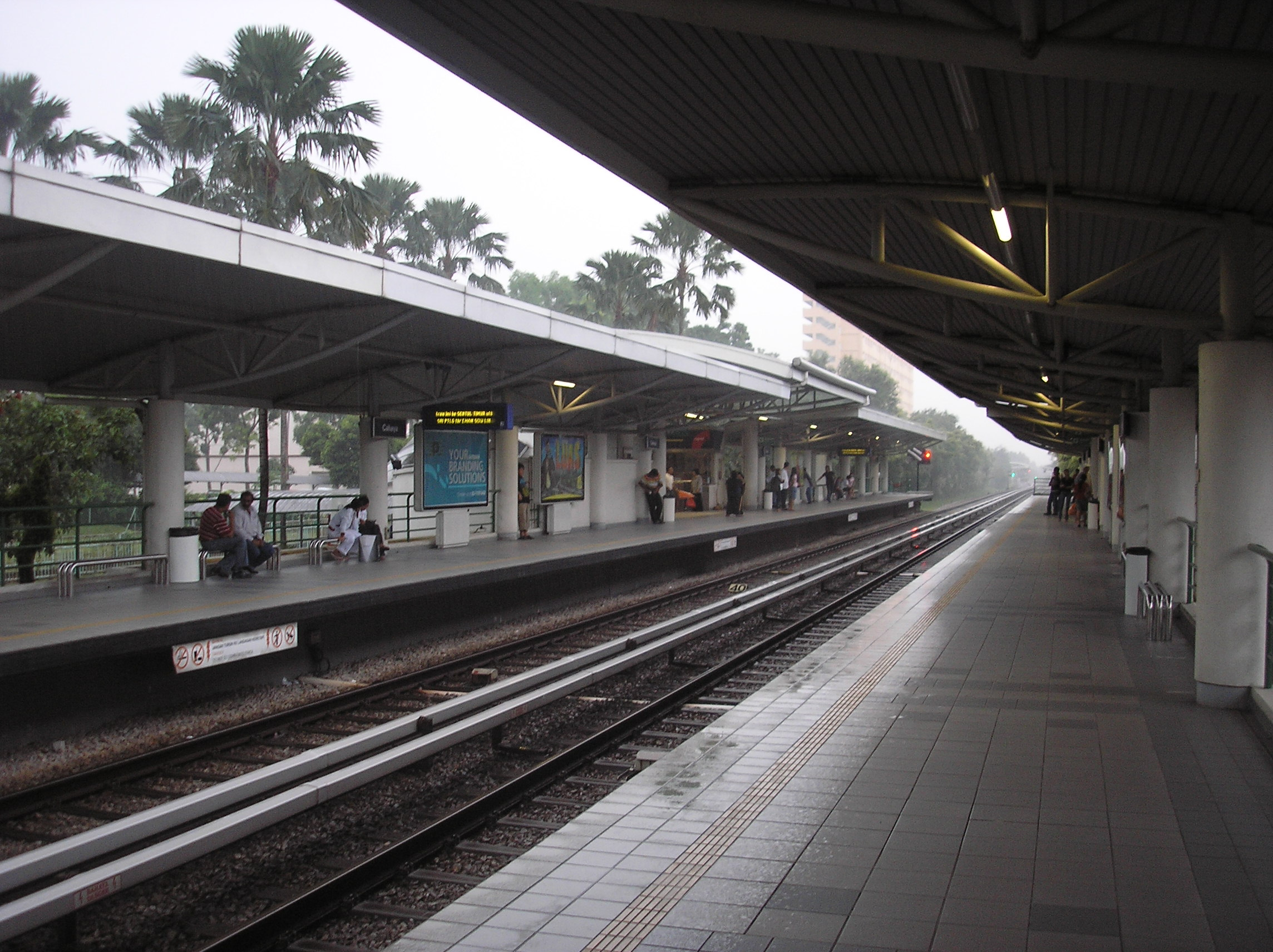 A platform view of the Cempaka LRT station (Ampang Line), Selangor, Malaysia.